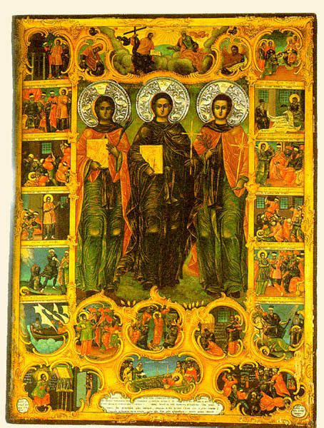 Saints Akakius. Euthymius and Ignatius